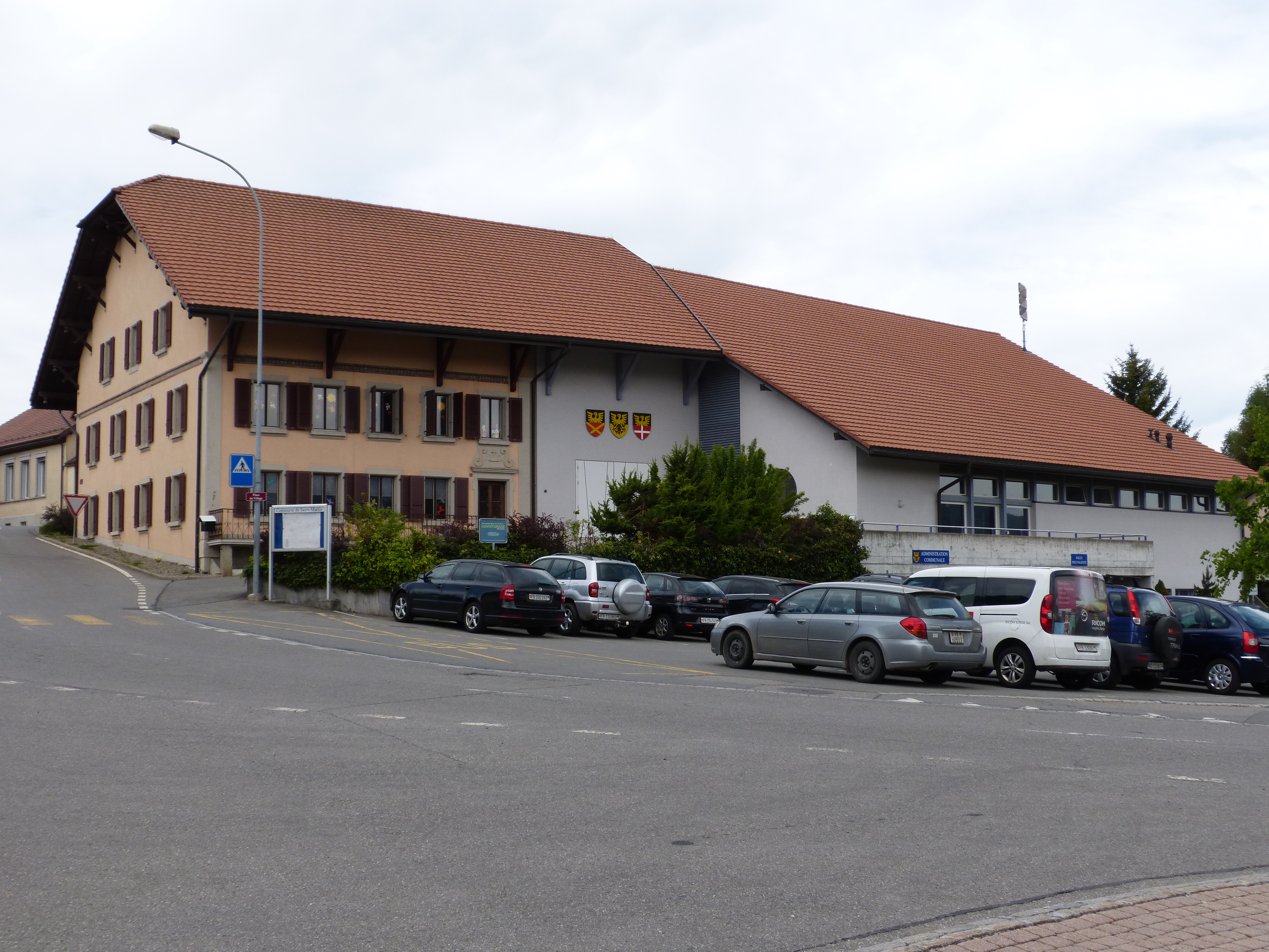 View of the town house of Saint-Martin with detailed coat of arms from the three localities forming the municipality : Besencens, Saint-Martin and Fiaugères.